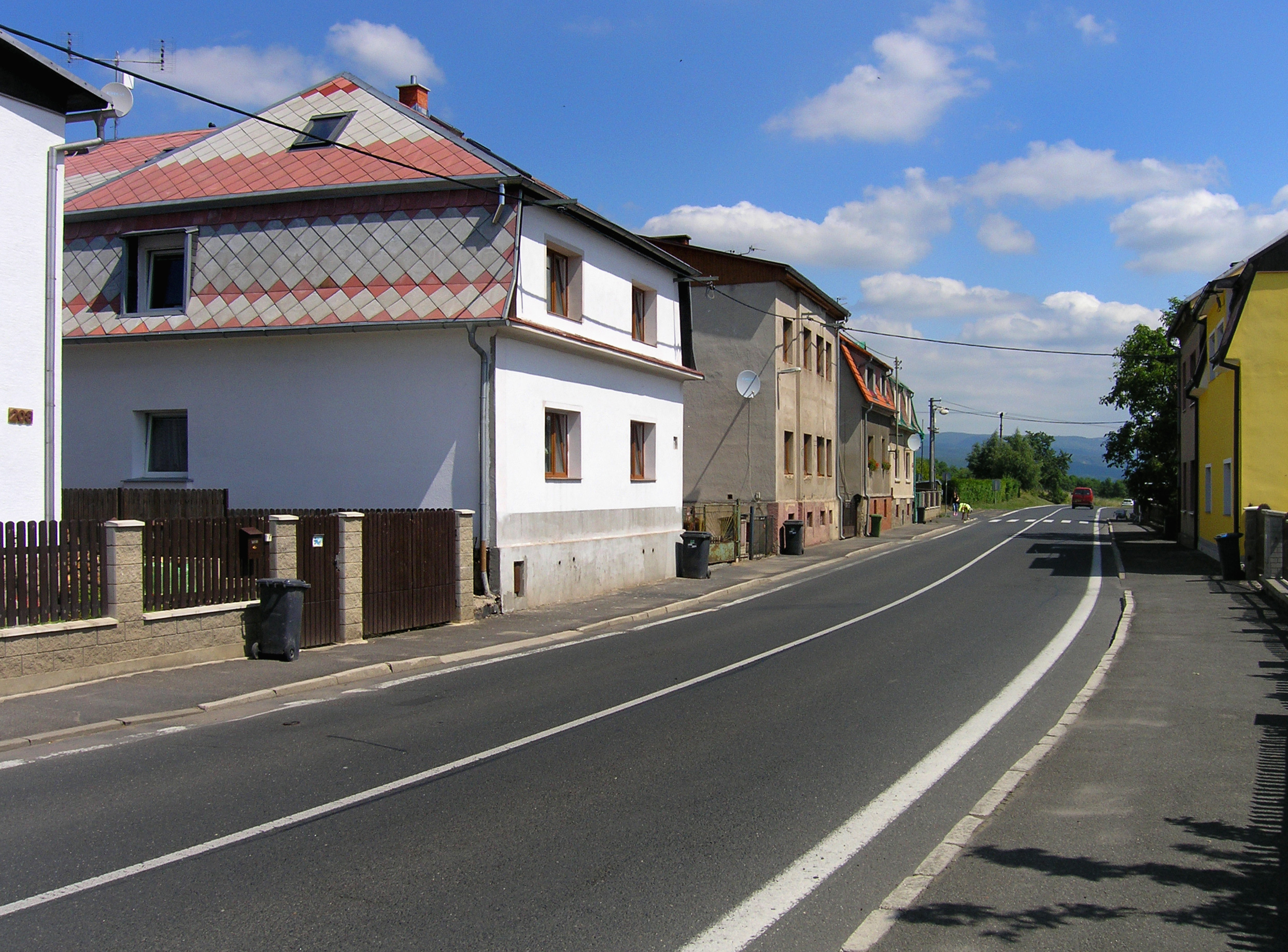 Road No 27 in Háj u Duchcova, Czech Republic